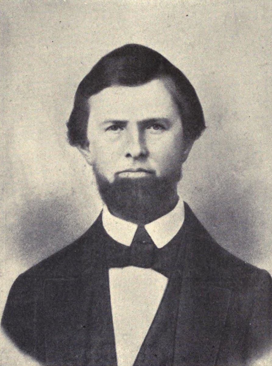 Amos Starr Cooke (1810–1871) was an educator and businessman in the Kingdom of Hawaii. he and his wife founded the Royal School, whose students included the last five monarchs of Hawaii. He then co-founded the firm Castle & Cooke which became a dominating agricultural conglomerate through the 20th century.